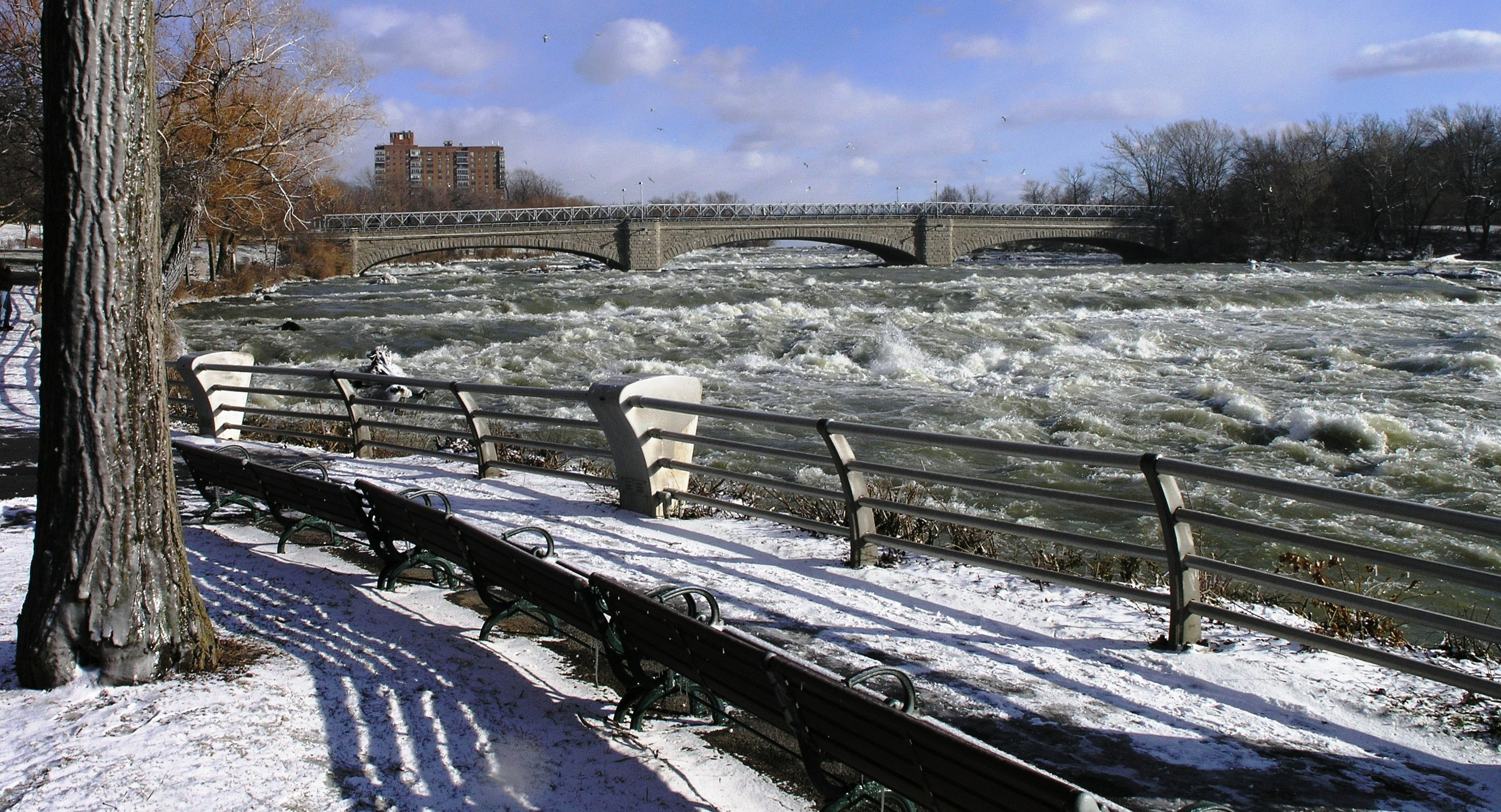 Taken by Daniel Mayer in late February 2006.